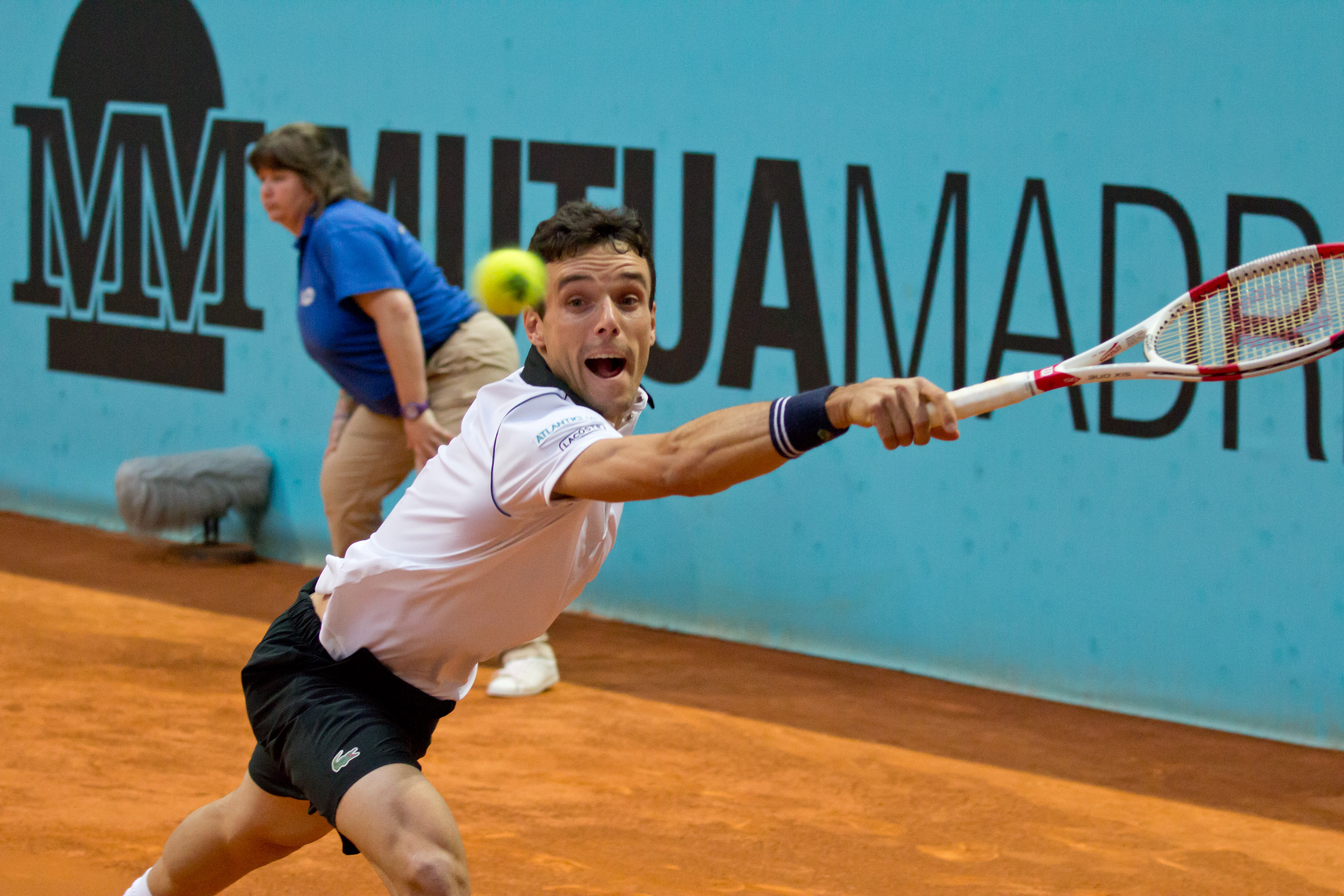 Roberto Bautista at the Madrid Open 2015, Madrid, Spain.